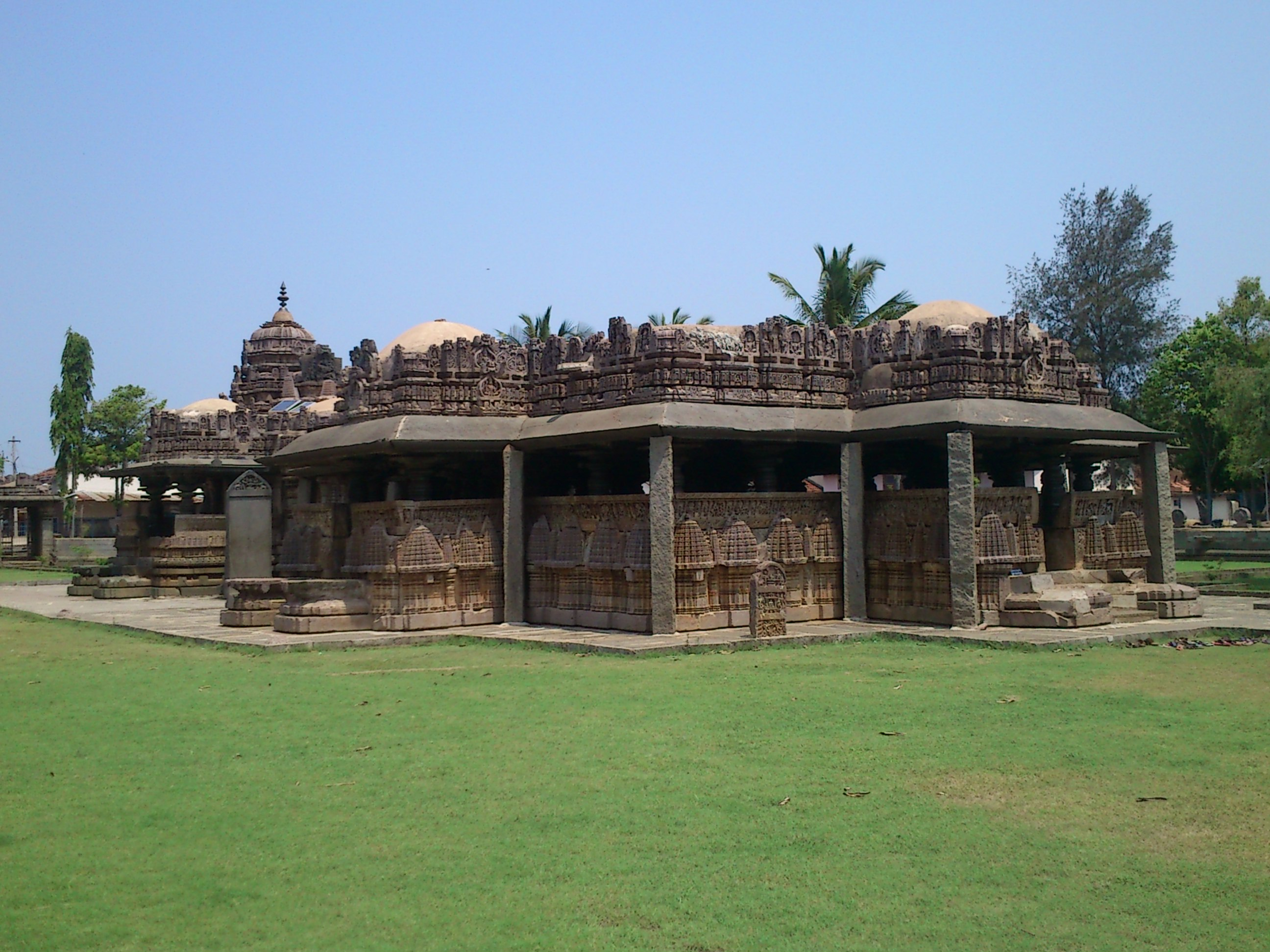 Amruthapura Amruteshwara Temple